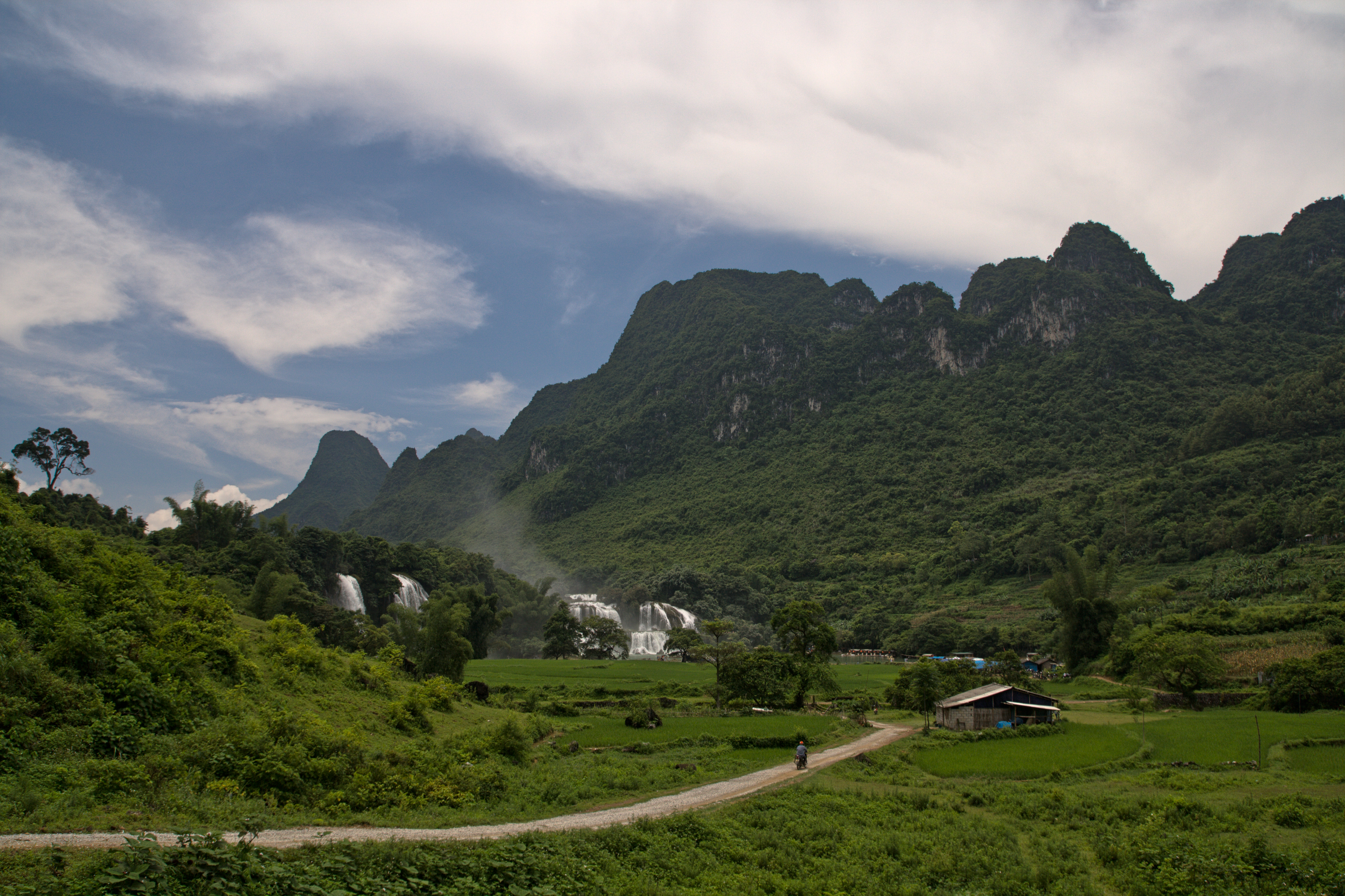 Ban Gioc Waterfalls on the Vietnamese/Chinese border